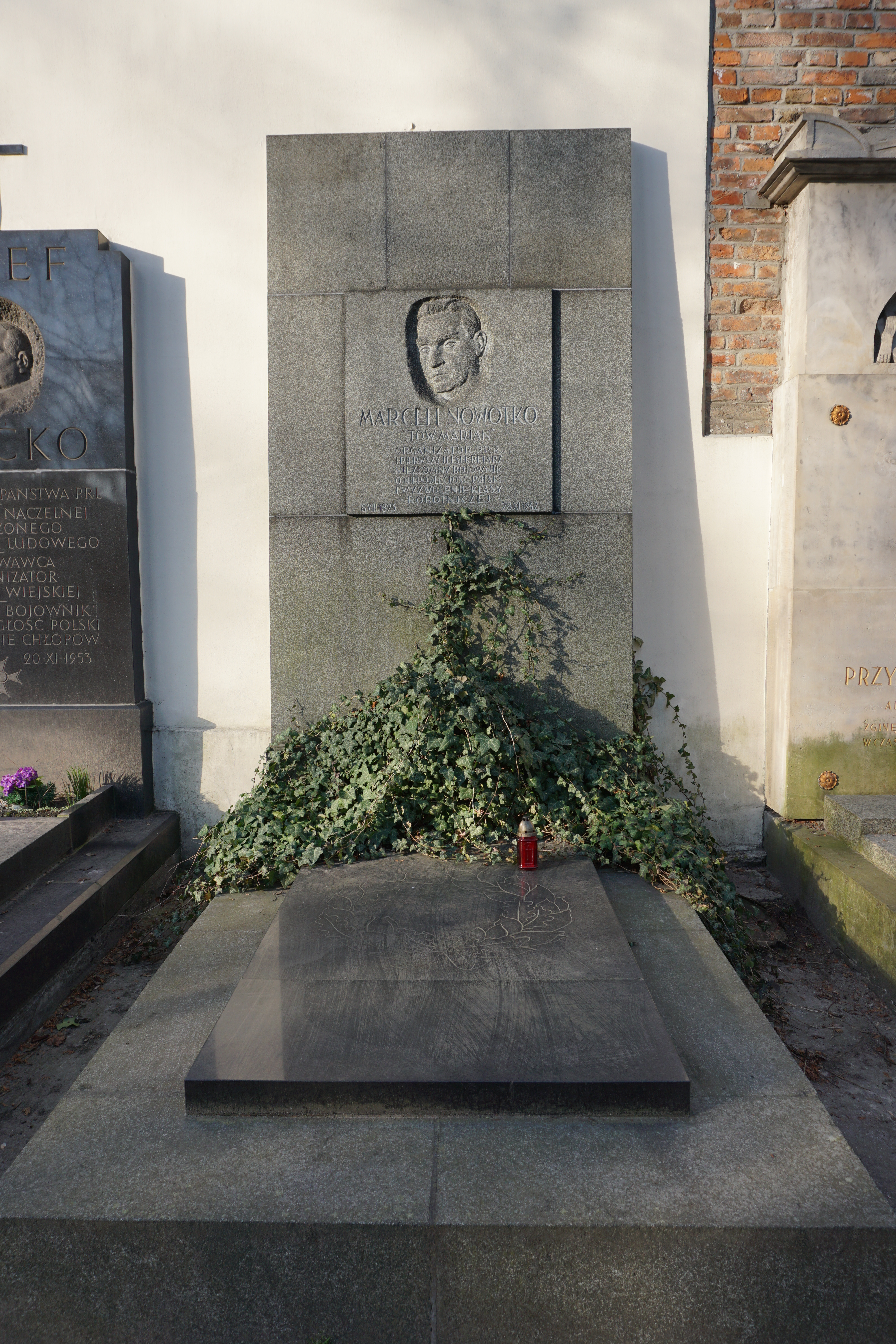 The grave of Marcel Nowotka at the Powązki Cemetery (Avenue of Deserved, grave 22)